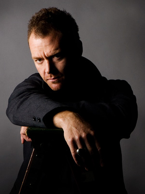 This is a photograph I took of Marton whilst he was promoting his movie Romulus My Father with director Richard Roxburgh. More photographs of Marton and Richard can be seen on my website